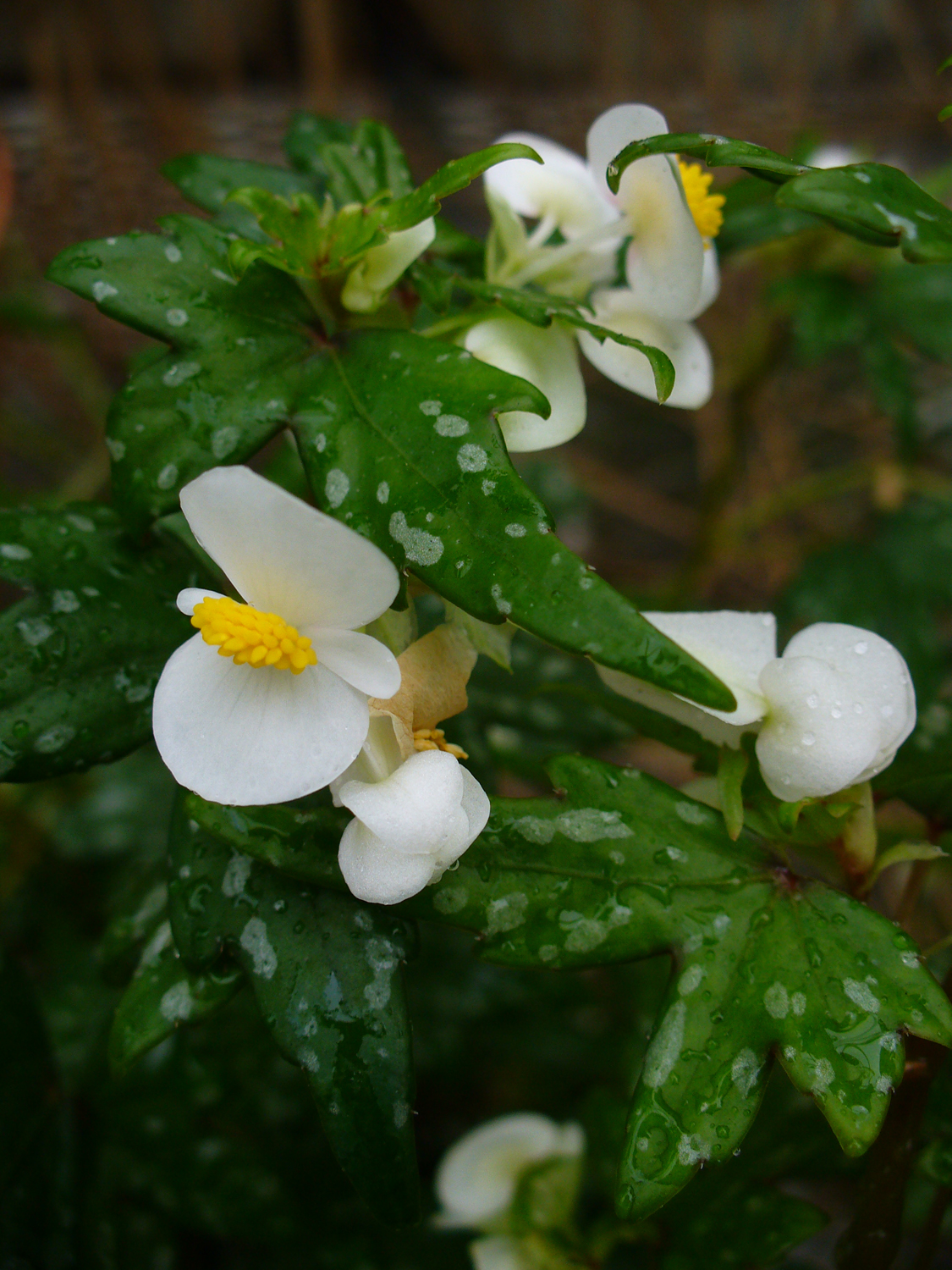 Biological Sciences Dept. greenhouse, Florida International University, Miami, USA